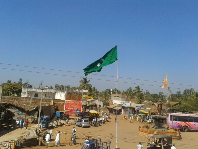 tilavalli circle